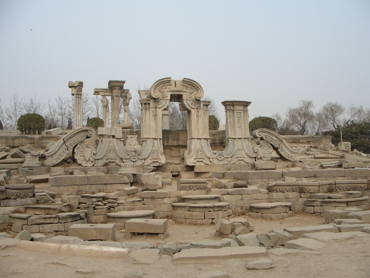 Ruins in the Xiyang Lou (Western mansions) section, of structures and gardens. On the grounds of the Yunamingyuan (Old Summer Palace) — in Beijing.